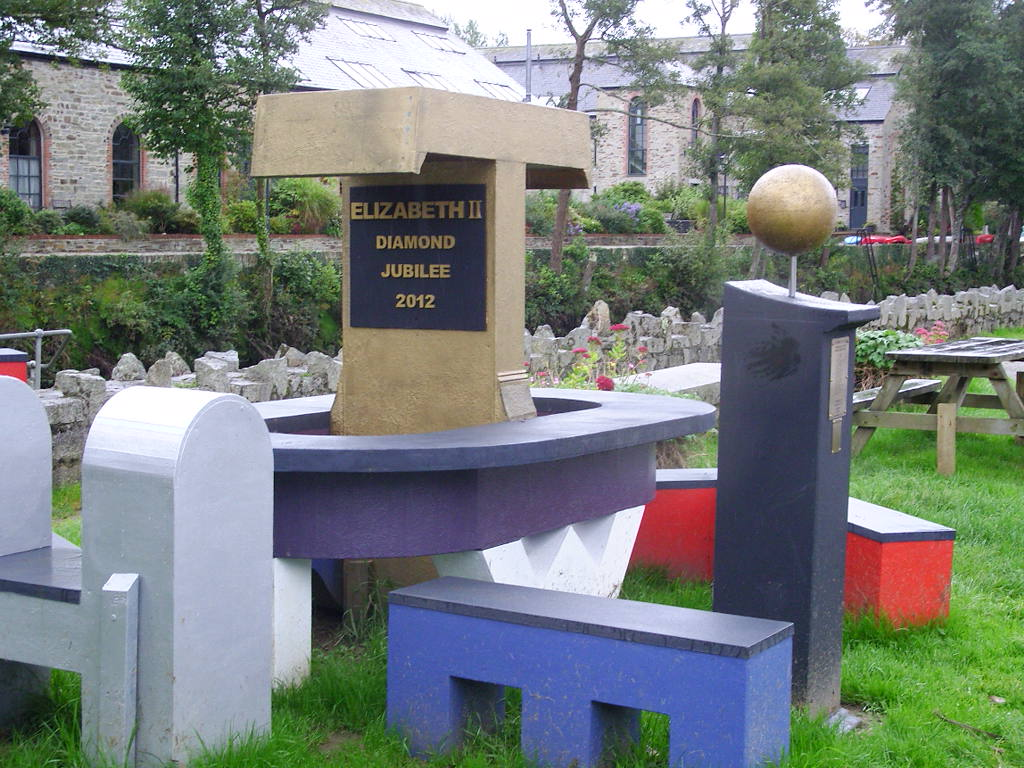 Sculpture for Queens diamond jubilee 2012. It comprises of letters spelling out the name Lostwithiel, it was commissioned by the town council, designed by Robin Guest [1] and built with the help of 20 local craftsmen.